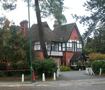 Langtry Manor (also known as the Red House) currently a hotel located in Bournemouth, England. The house was built in 1877 by Emily Langton Langton